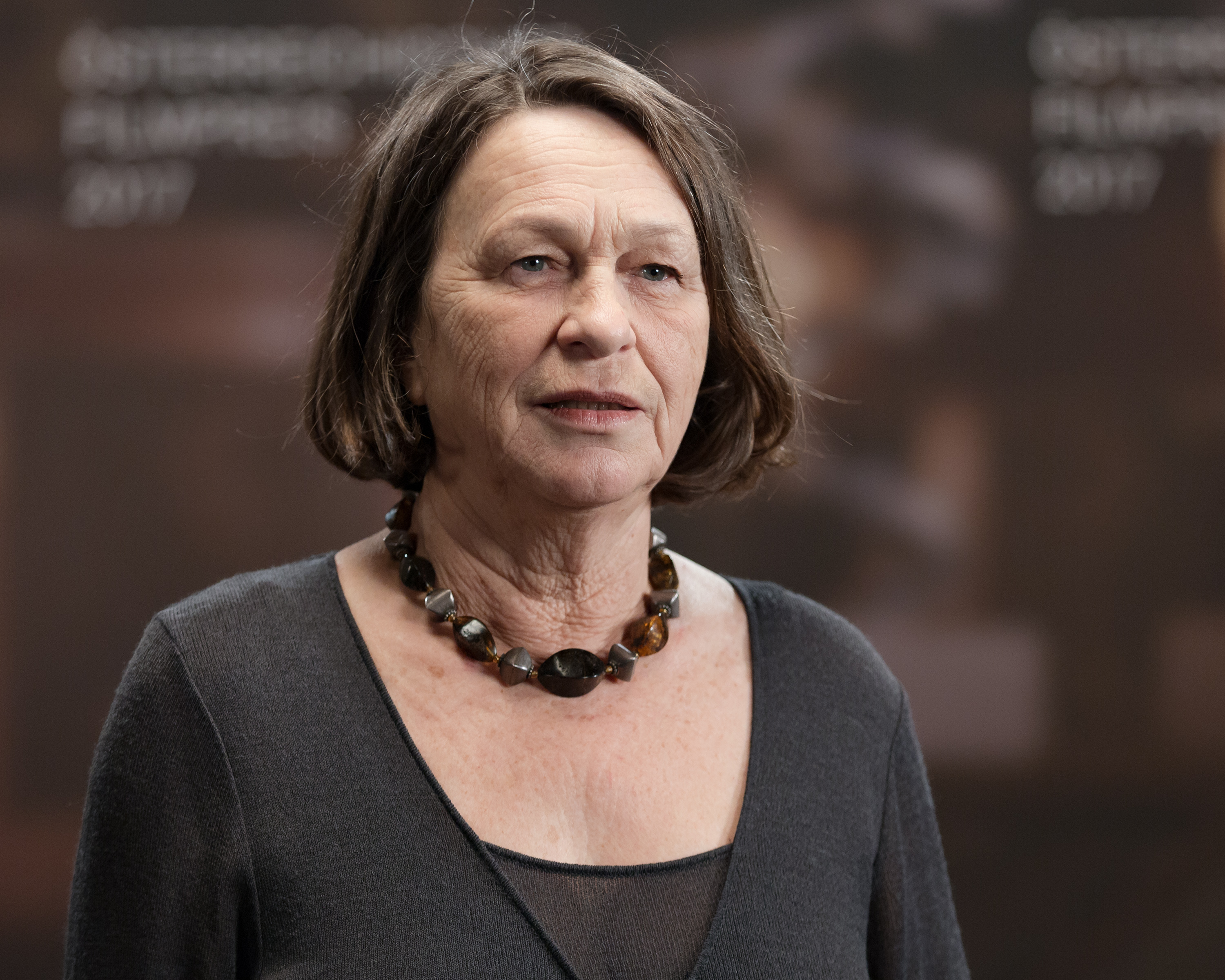 Hilde Berger, actress in and writer of Egon Schiele: Tod und Mädchen, at the Austrian Film Awards 2017 (Rathaus, Vienna,Austria).